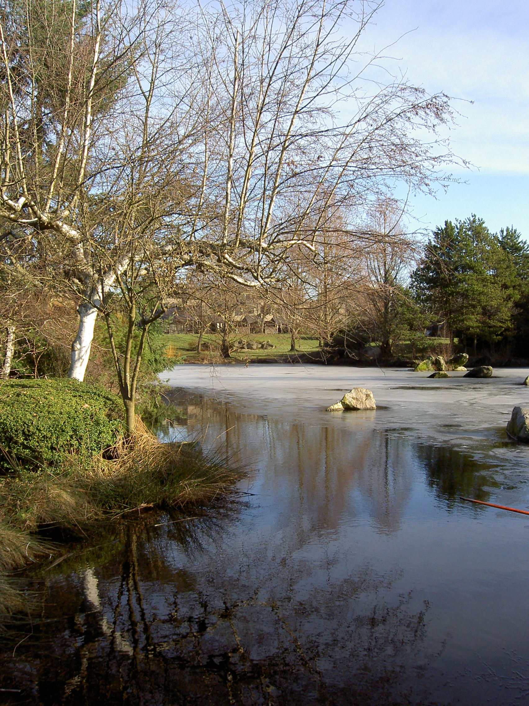 Charleson_Park_02